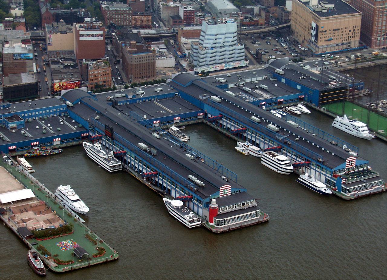 Bird's eye view of the Chelsea Piers.